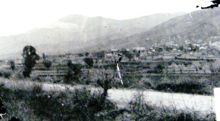 Panorama of the village Brusnik, 1923 This media file is produced by Wikipedian in Residence in Category:Wikipedian in Residence at DARM in 2016.